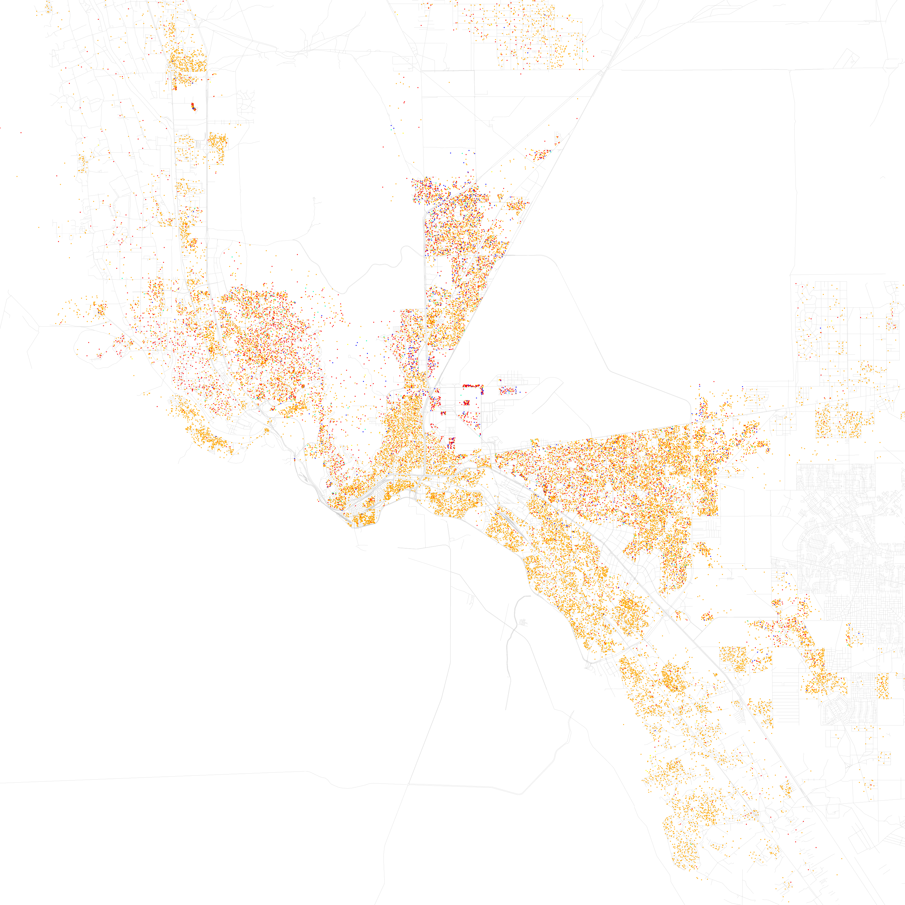 Maps of racial and ethnic divisions in US cities, inspired by Bill Rankin's map of Chicago, updated for Census 2010. Red is White, Blue is Black, Green is Asian, Orange is Hispanic, Yellow is Other, and each dot is 25 residents. Data from Census 2010. Base map © OpenStreetMap, CC-BY-SA